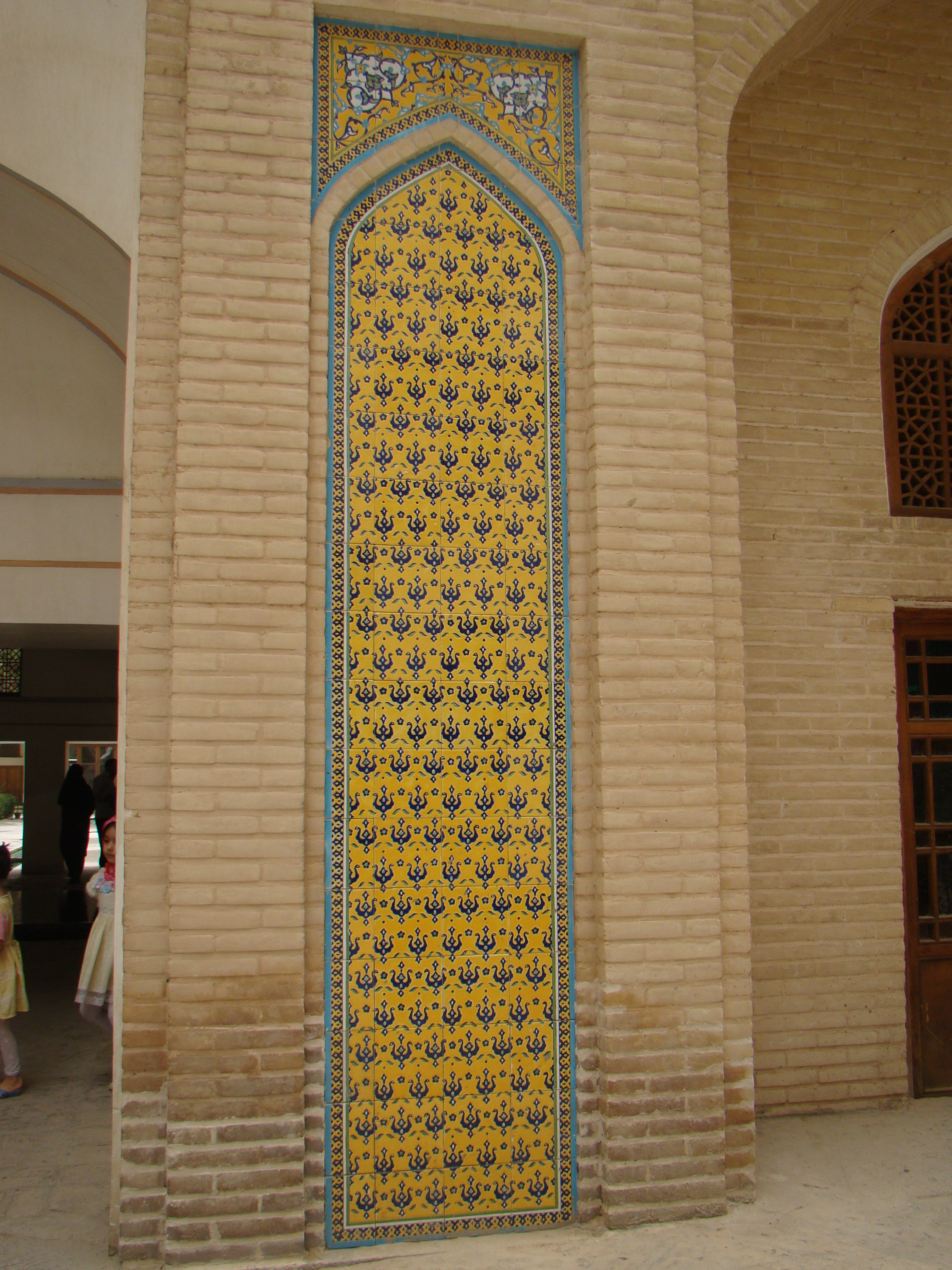 tiling art